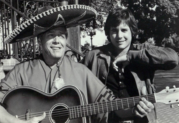 Publicity photo of Desi Arnaz Sr. and Desi Arnaz Jr. in the television special "California, My Way", 1974.